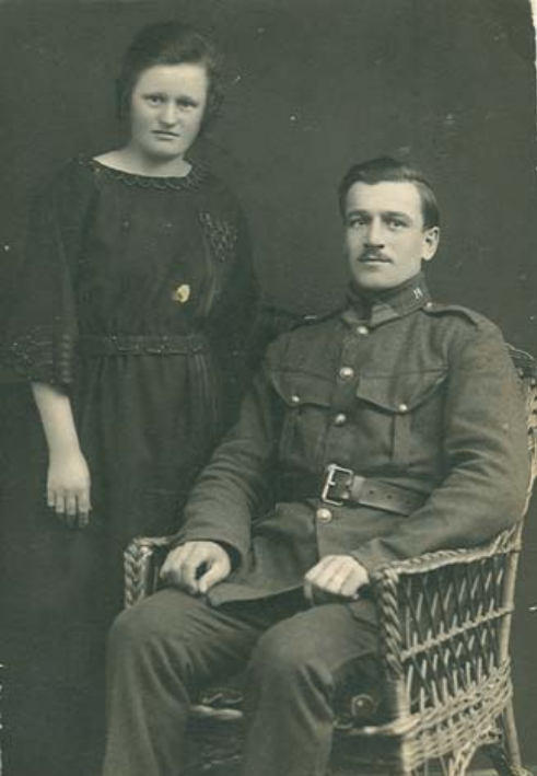 Alois Křejpský and Pavlína Křejpská